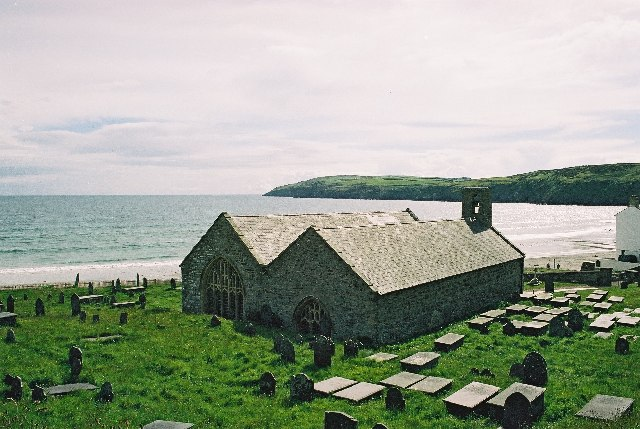 Aberdaron church. The present Church of St Hywyn dates from 1137 and replaced a wooden building dating from the 5th Century. The poet R S Thomas was vicar of St Hywyn's from 1967 to 1978.